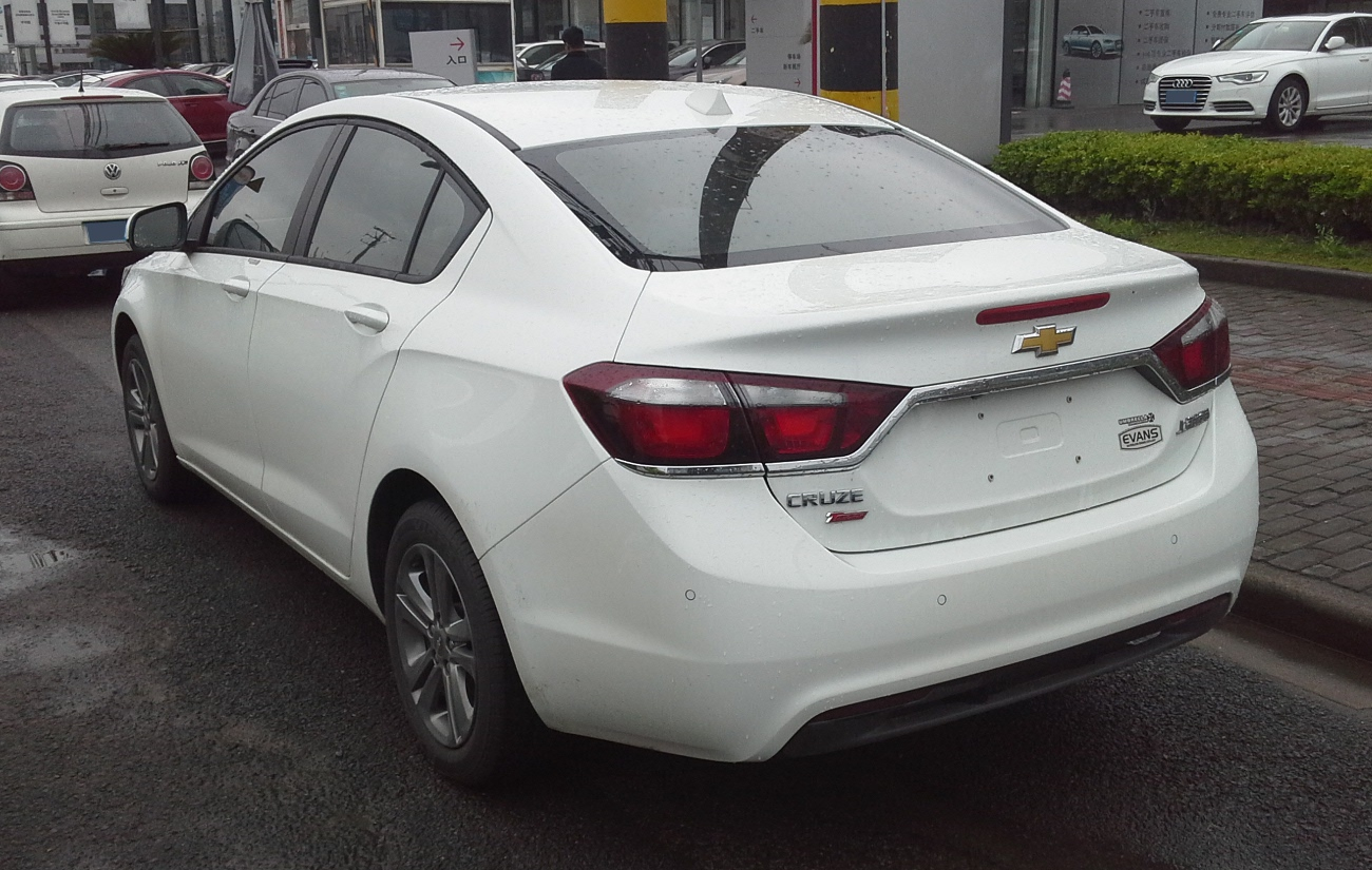 Chevrolet Cruze J400 CN photographed in Shanghai, China.